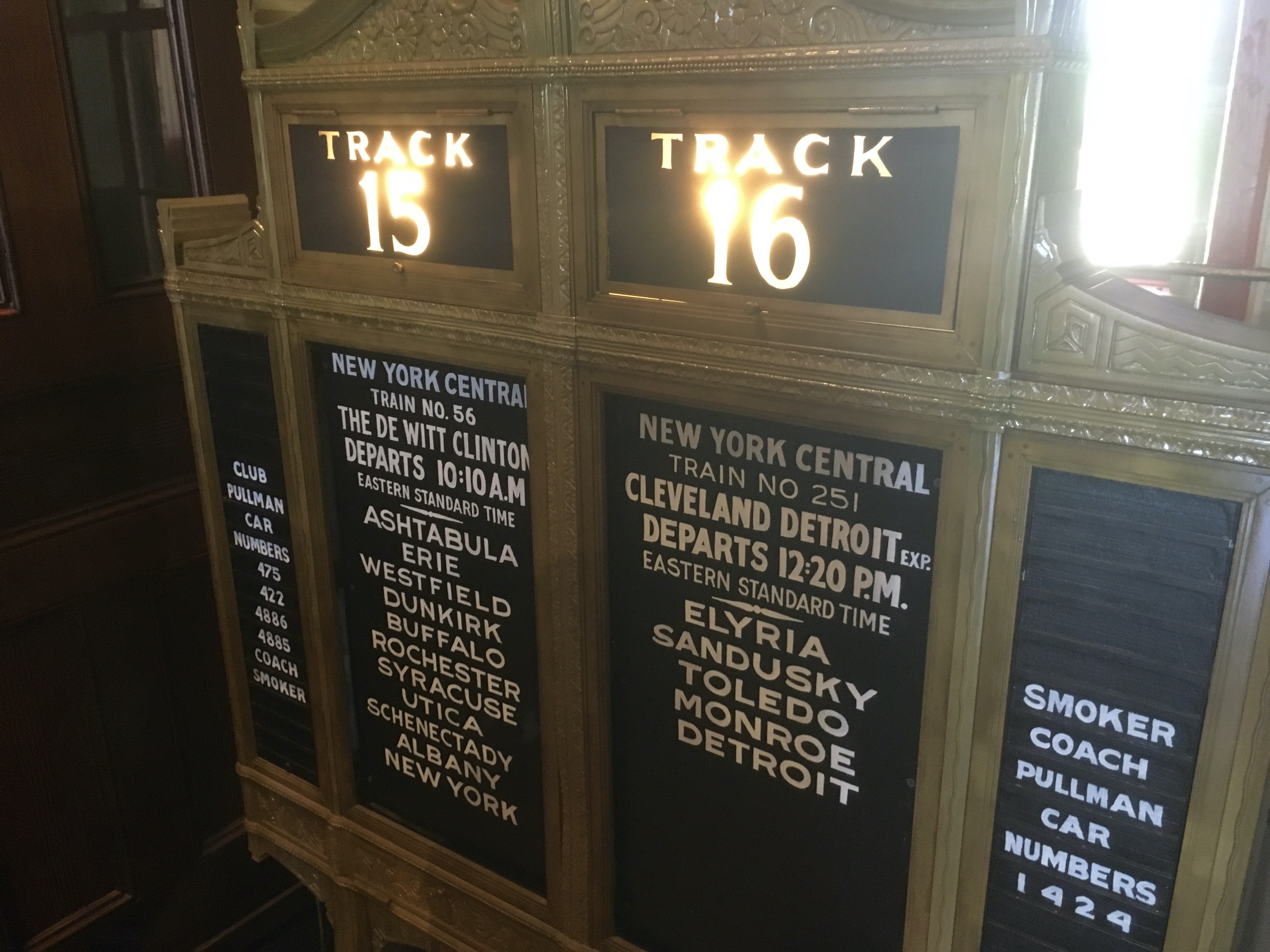 Cleveland Union Terminal track sign (15-16), currently located at Berea Union Depot